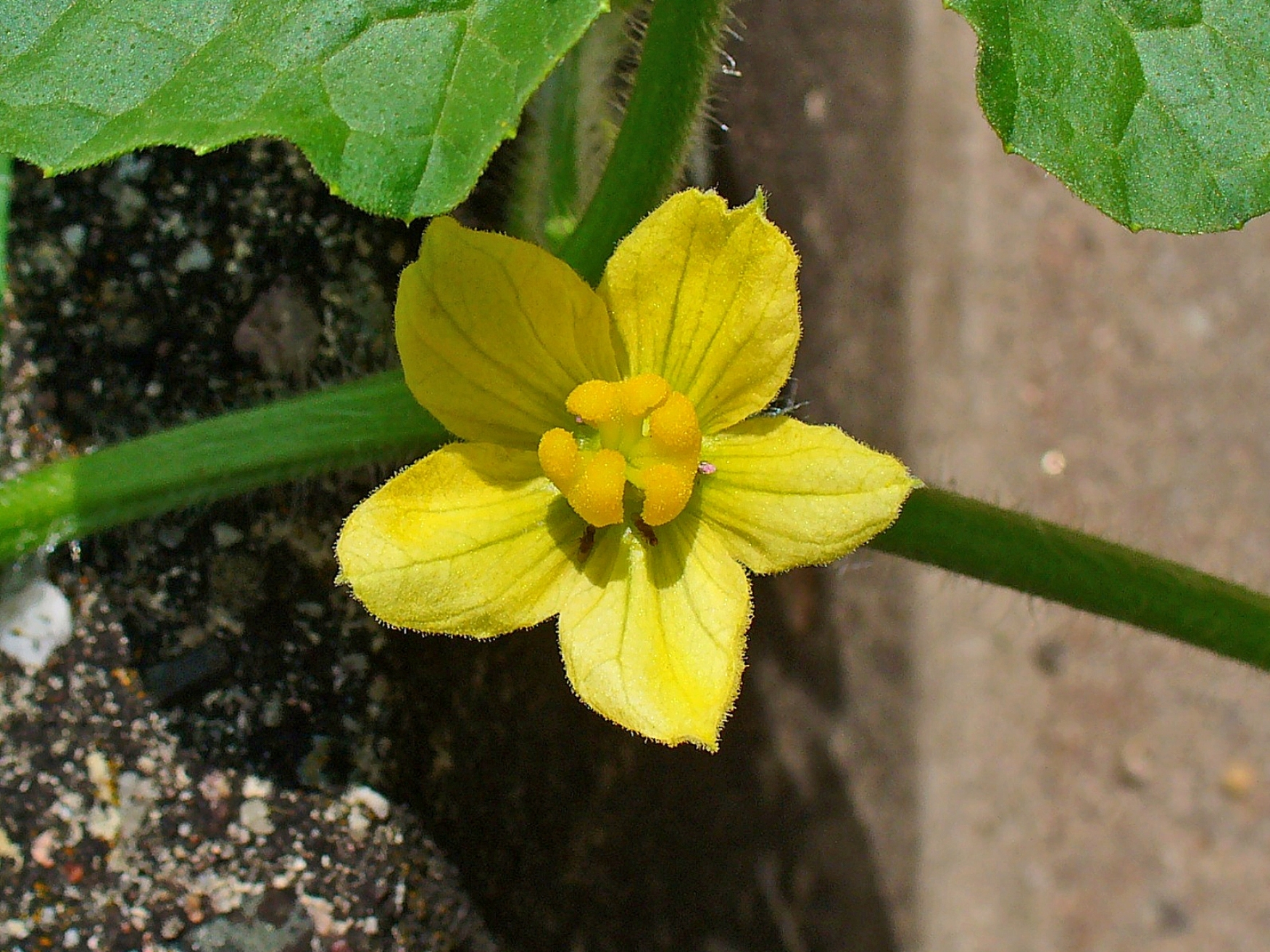 Citrullus colocynthis, Cucurbitaceae, Colocynth, Bitter Apple, Bitter Cucumber, Egusi, Vine of Sodom, flower; Botanical Garden KIT, Karlsruhe, Germany. The ripe, hulled, seeded fruits are used in homeopathy as remedy: Colocynthis (Coloc.)